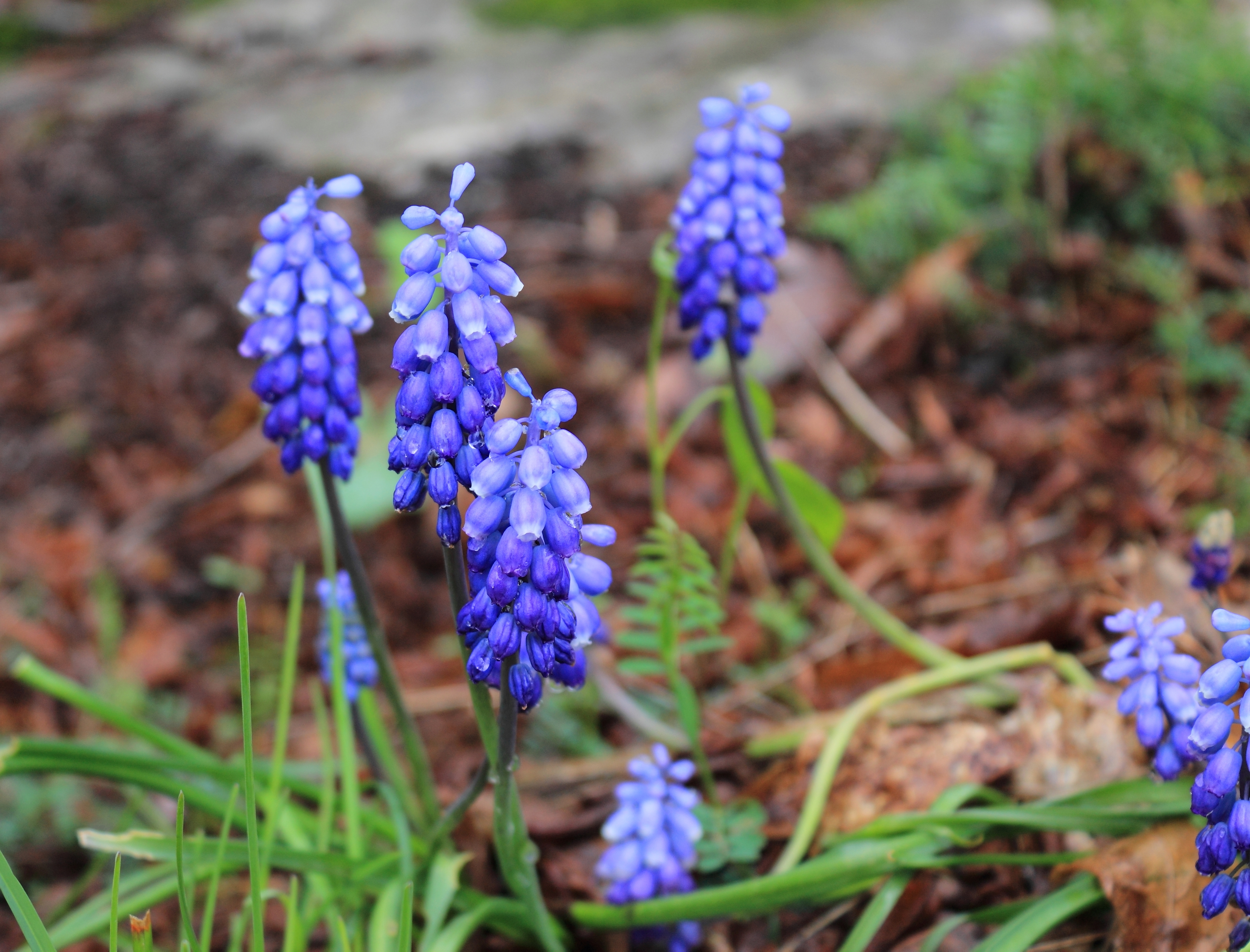 North Colchis calcareous endemic - Muscai dolichantum Woronow et Tron in the conditions of the wild nature. The picture is made in Akhtsu's gorge. Average watercourse Mzymta river in the territory of Sochi National Park, Adlersky District, Sochi, Krasnodar Krai. It is included in the Red List.